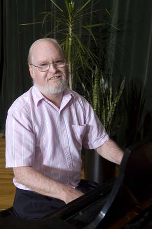 Dr. Robert Boury (born 28 December 1946), is an American composer and pianist.